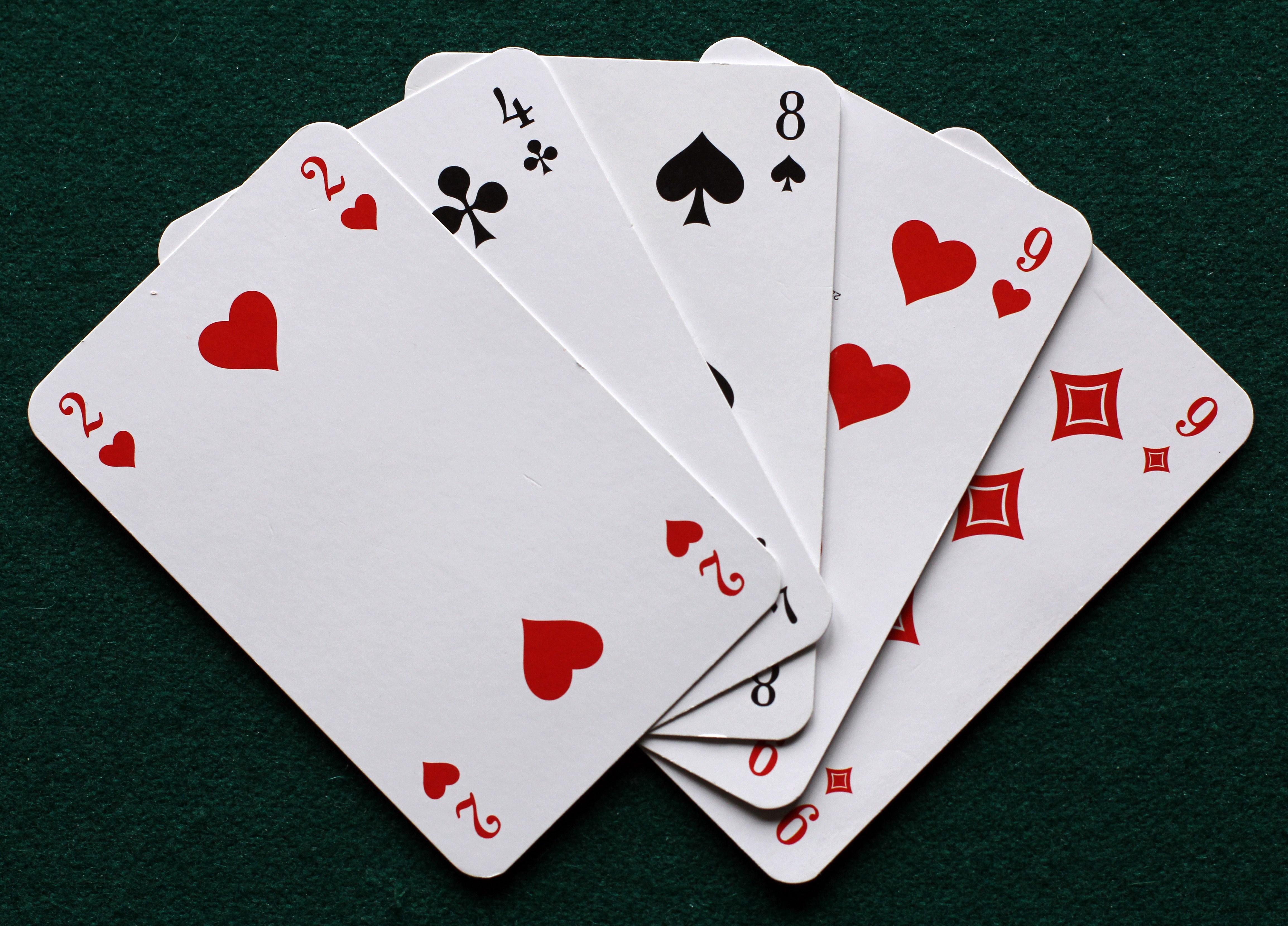 The five Olen or 'Old Ones'; the top trumps in the Frisian game of Knüffeln.